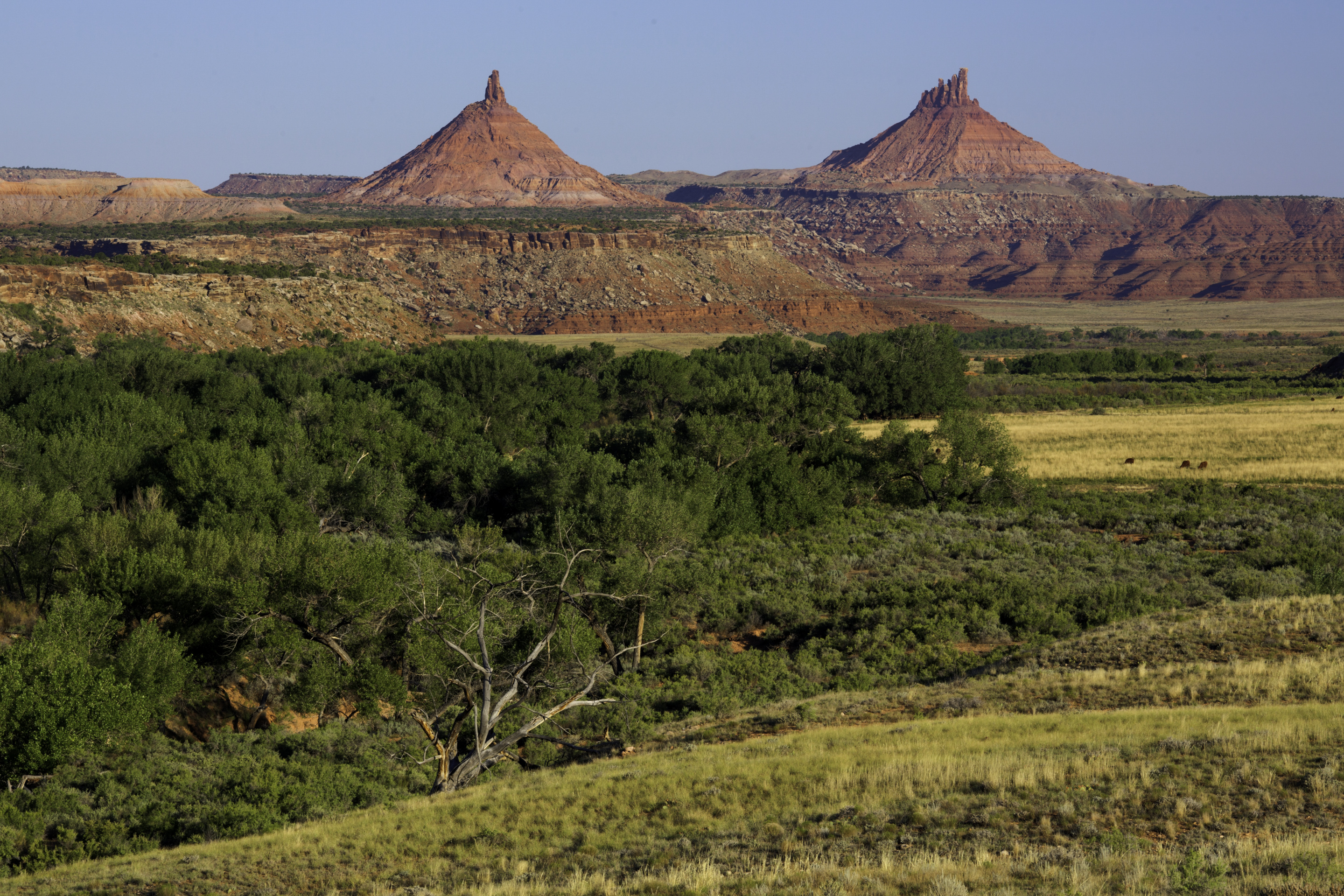 Day Time in Indian Creek - the Sixshooter Peaks in Bears Ears National Monument